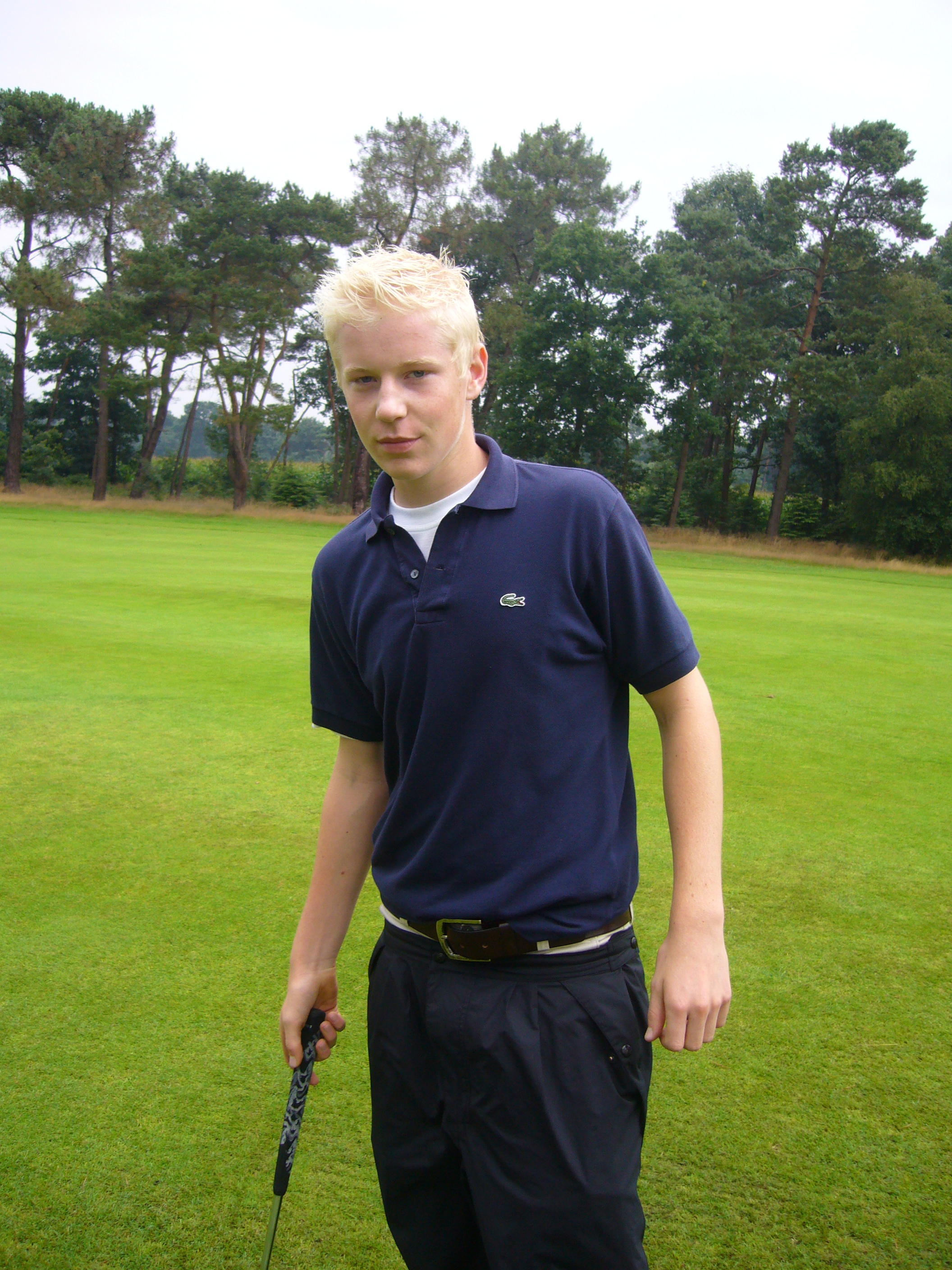 Willem Vork, Dutch golfer